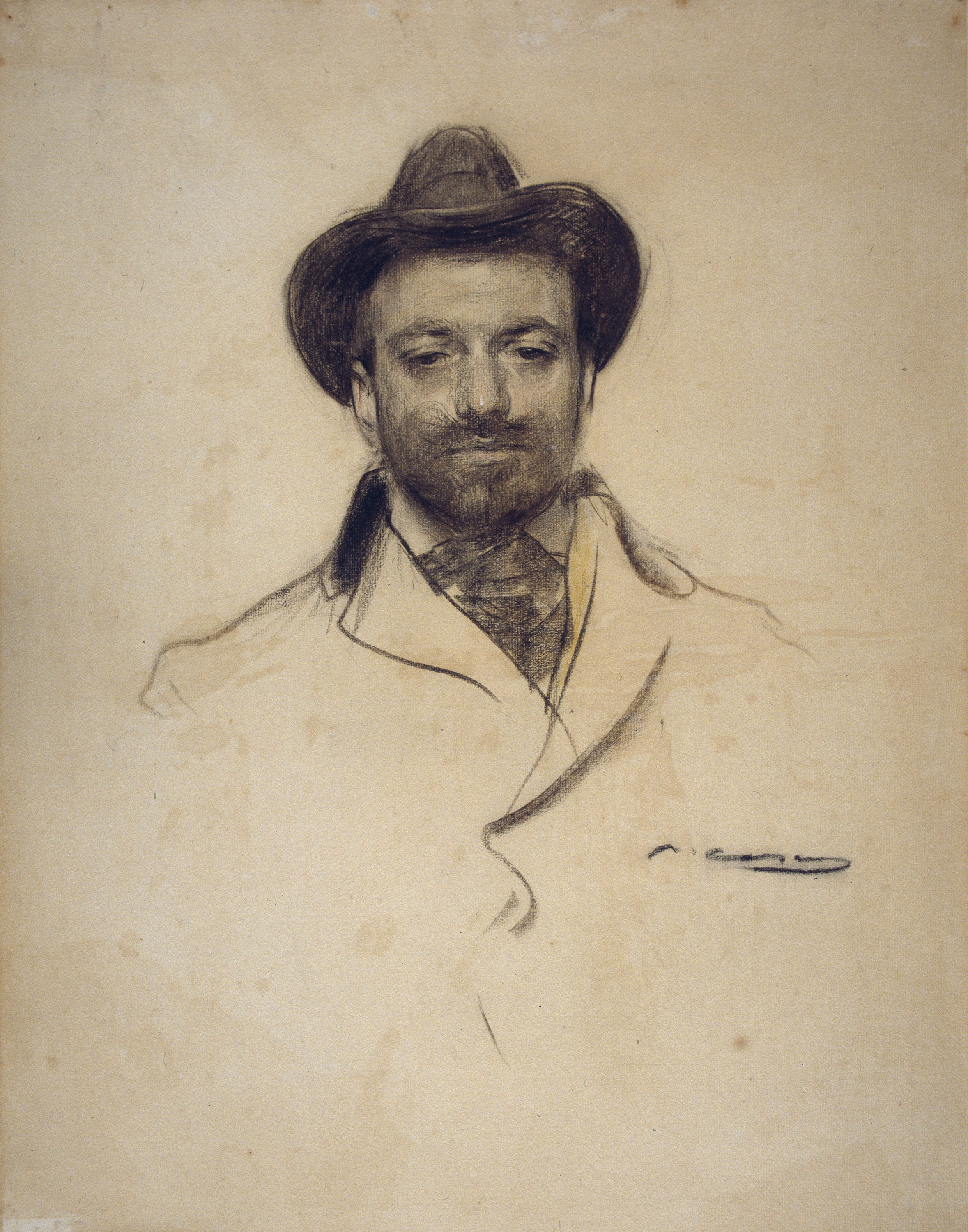 Portrait by Ramon Casas conserved at MNAC in Barcelona. Imagen 276